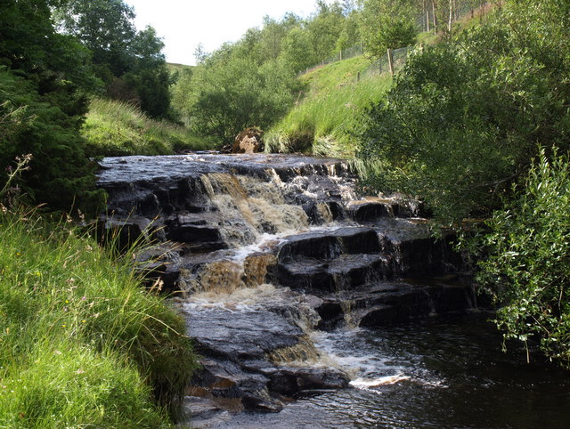 Hunder Beck Waterfall This small fall is on Hunder Beck close to the Old Youth Hostel; is not very accessible.